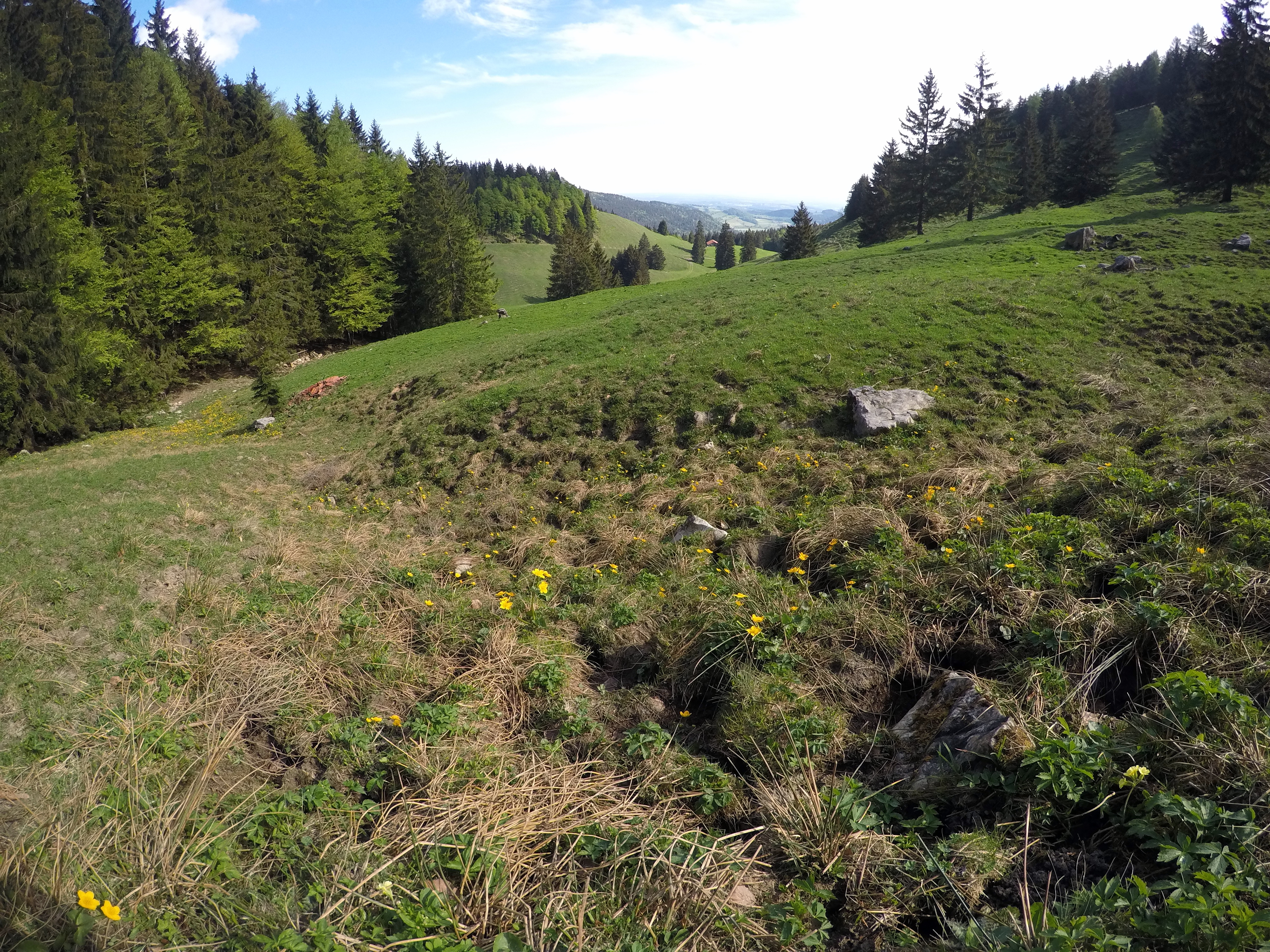 Obere Krainsberger Alm, Bavaria